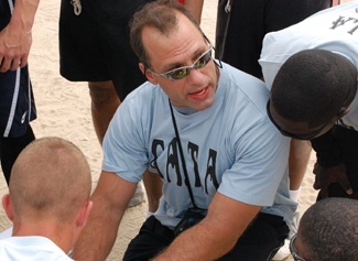 Chris Spielman, former Ohio State Buckeye linebacker, spent some time April 4-6 with the Soldiers of the Ohio Army National Guard's 37th Brigade Combat Team currently deployed to Kuwait in support of the Global War on Terror. The United Service Organization, USO, brought former professional football players to Iraq and Kuwait to visit with deployed servicemembers.